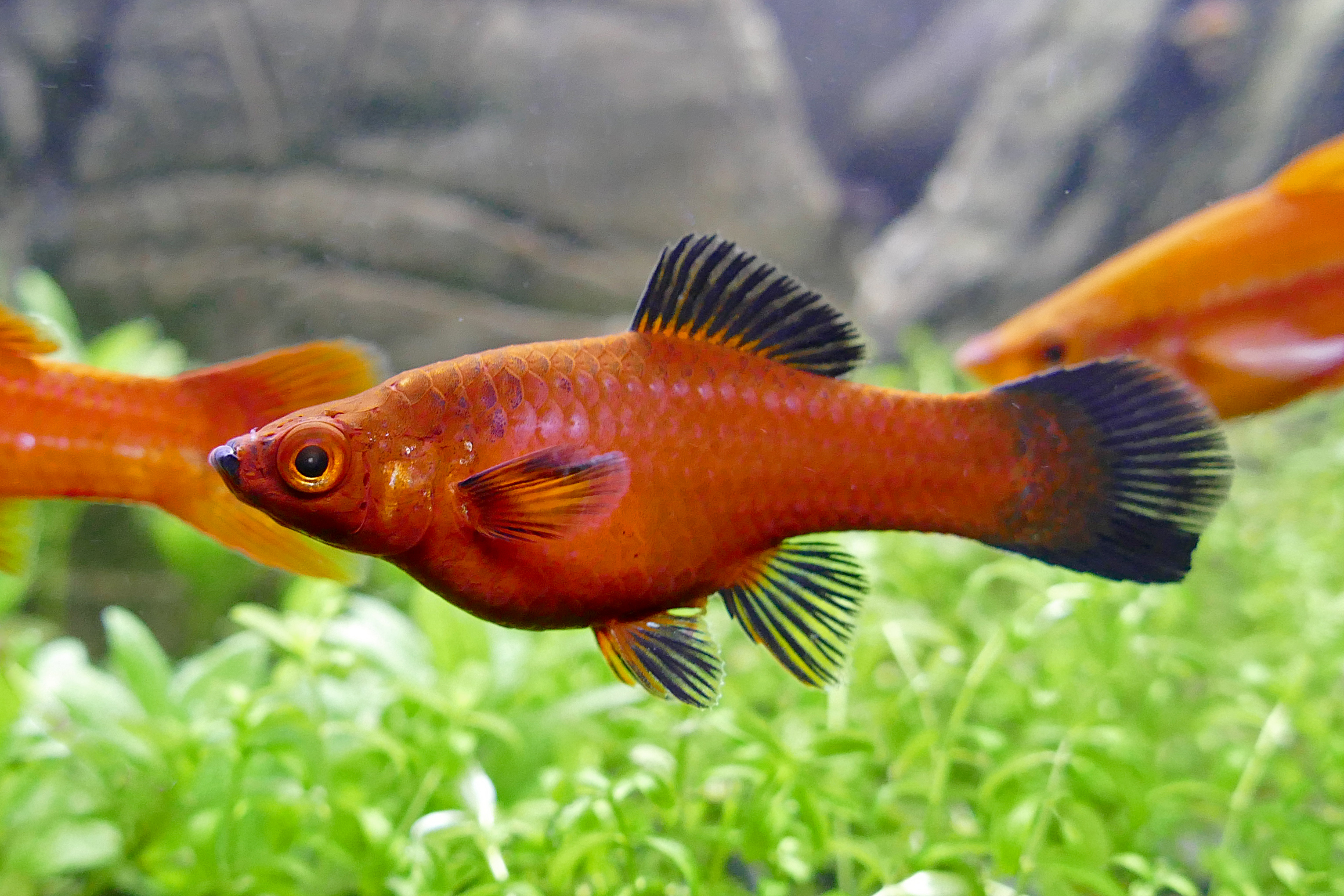 Xiphophorus Hellerii, Swordtail, wagtail (female)